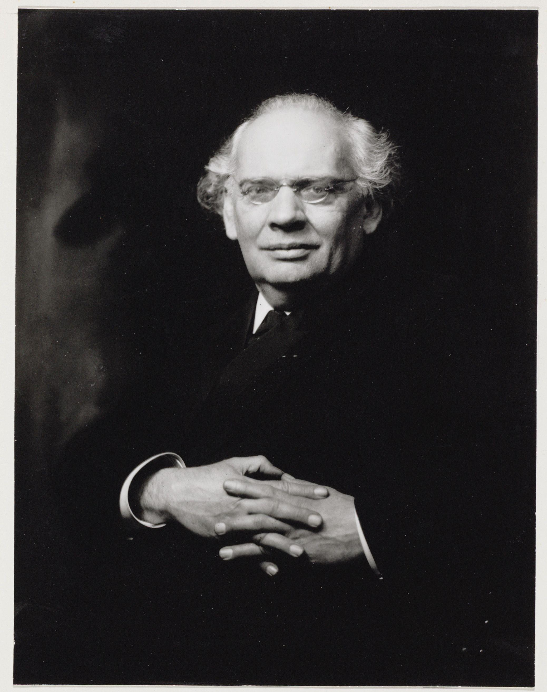 Photograph of composer Julius Röntgen by Jacob Merkelbach (1877-1942)